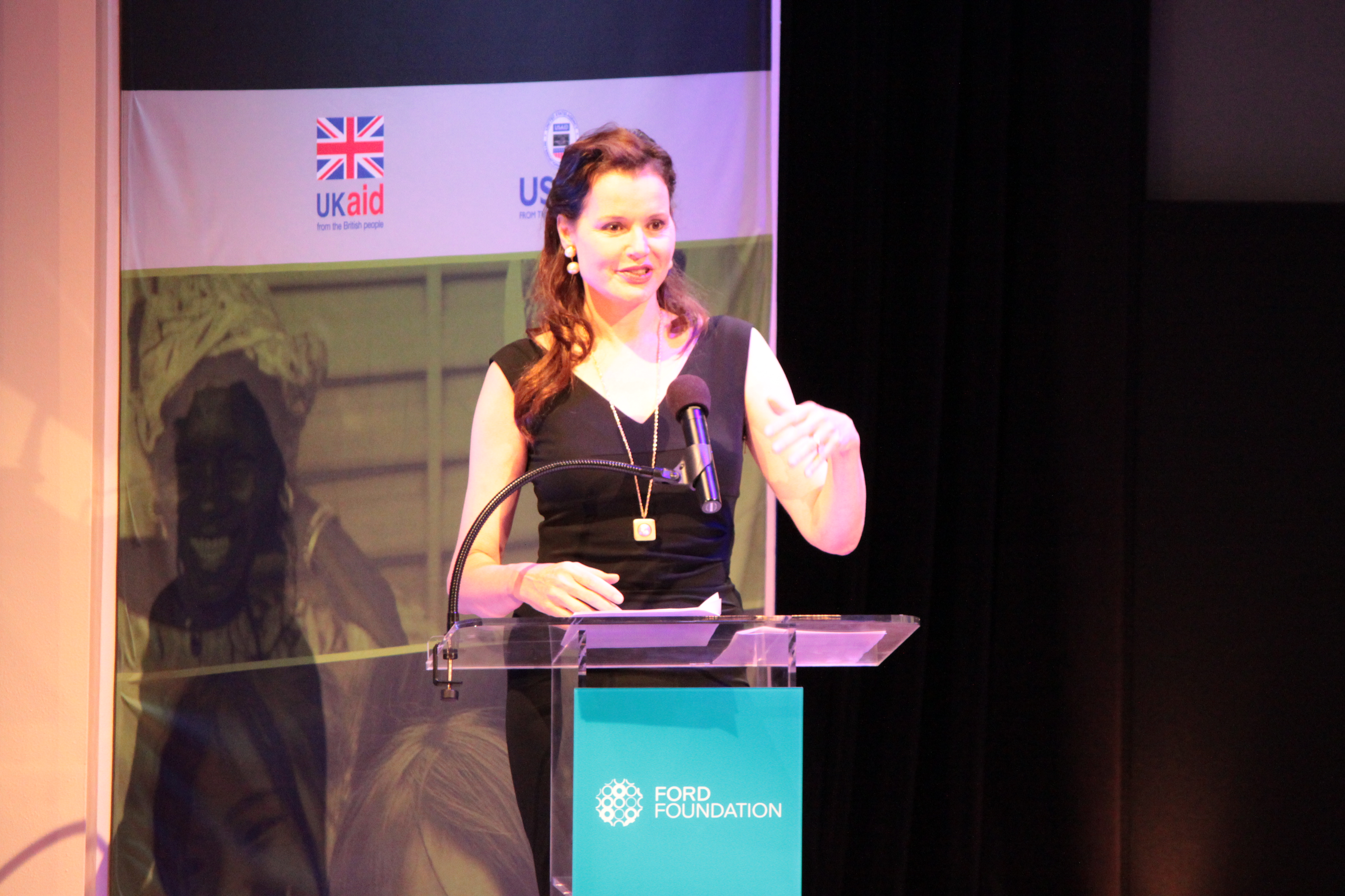 Actor Geena Davis at the MDG Countdown event in New York today, 24 September. Geena spoke engagingly about the negative messages sent to children around the representation of girls and women in film and television. She said we need a huge culture shift to address it.